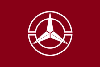 Flag of Tateyama Toyama